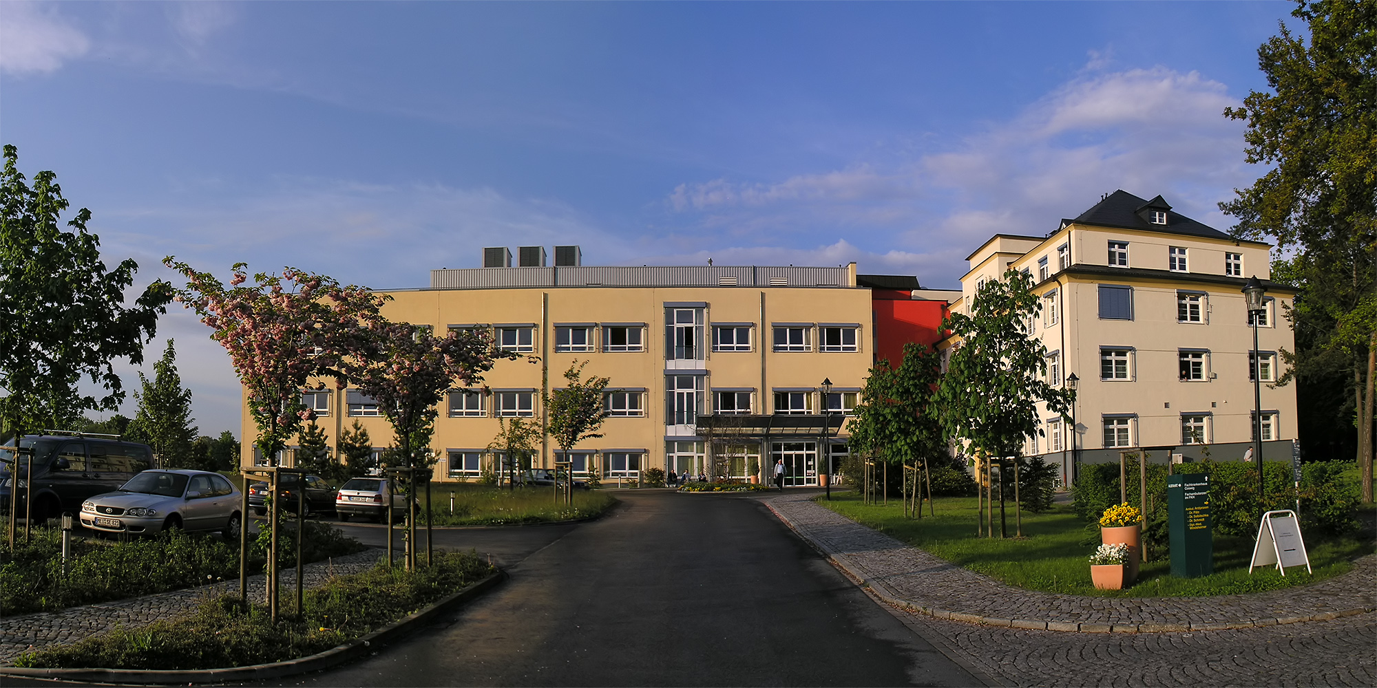 Fachkrankenhaus Coswig, front of the main building.